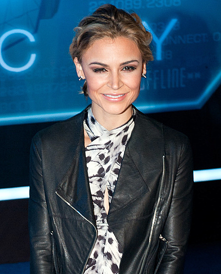 Samaire Armstrong at the Tron: Legacy Premiere 2010.